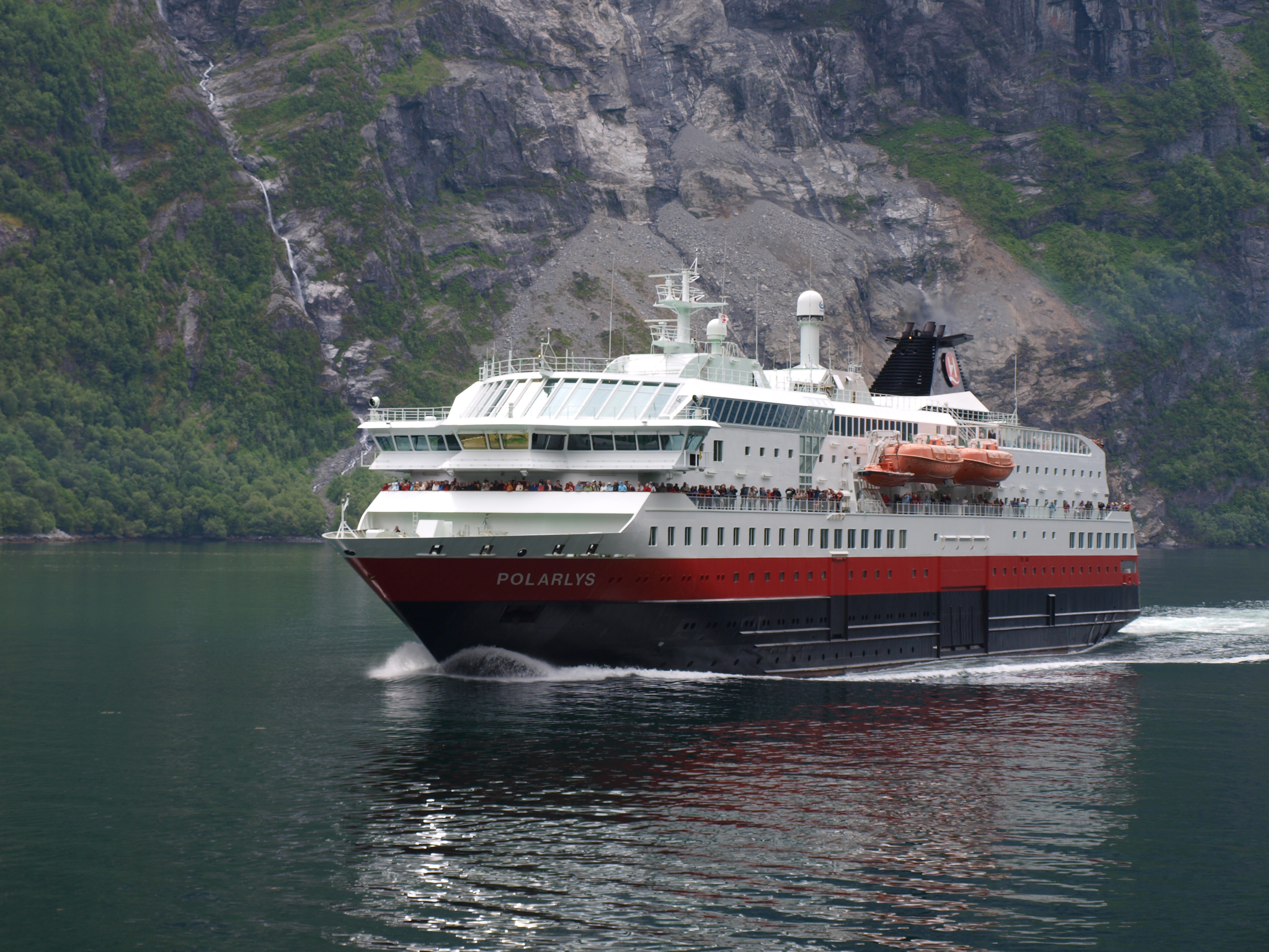 Hurtigruten / MS Polarlys in Geirangerfjord